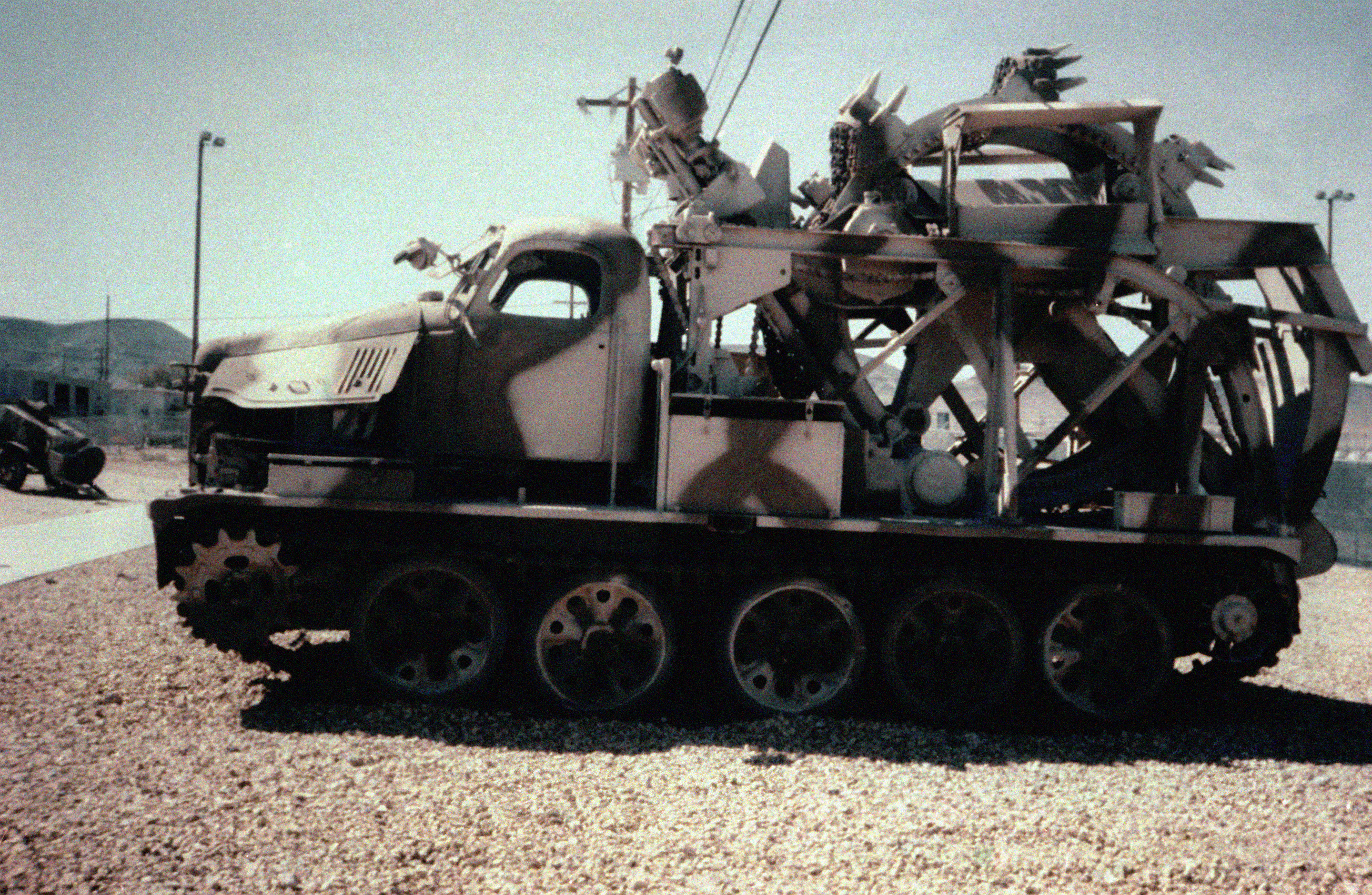 Left side view, on display, Soviet BMT High Speed Ditching Machine.